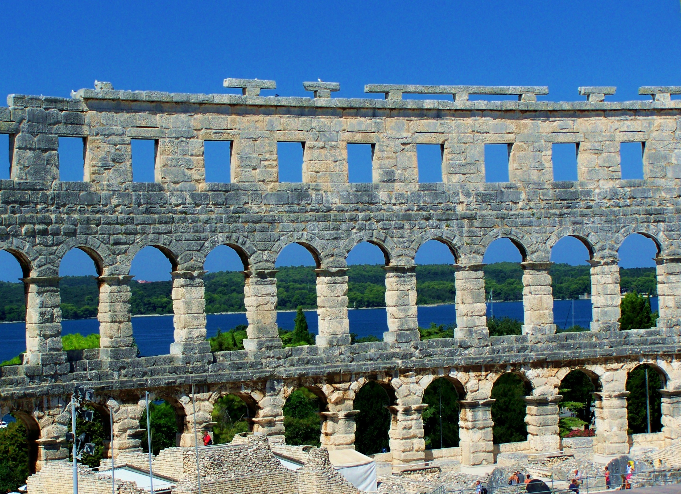 The amphitheatre in Pula, Croatia